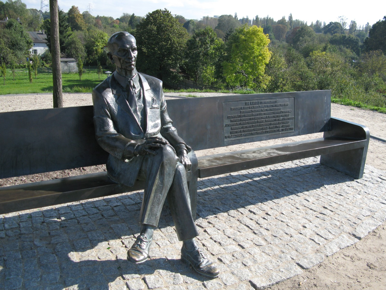 Jan Karski Bench in Survivors' Park, Łódź